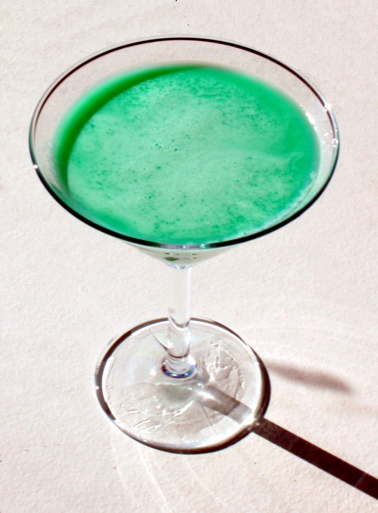 A 1:1:1 grasshopper cocktail, made with Jacquin's Creme de Menthe and Creme de Cacao, and whole milk.